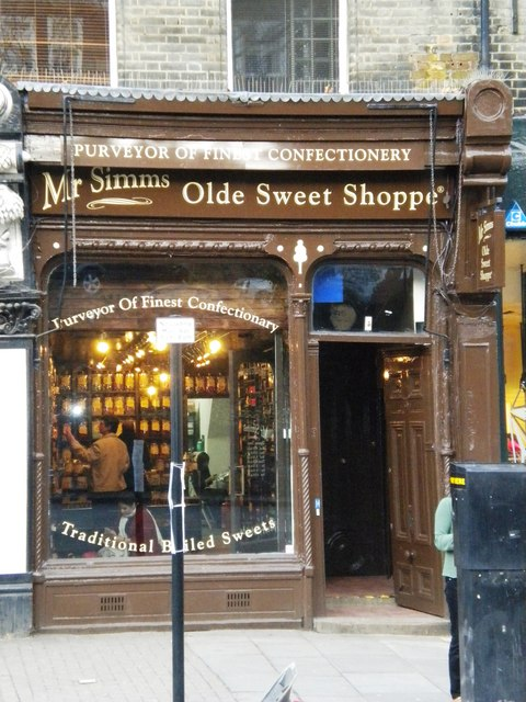 Mr Simms Olde Sweet Shoppe, Hampstead High Street NW3